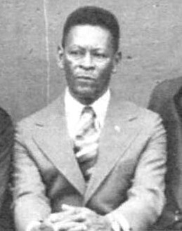 Dondinho playing for Atletico Mineiro